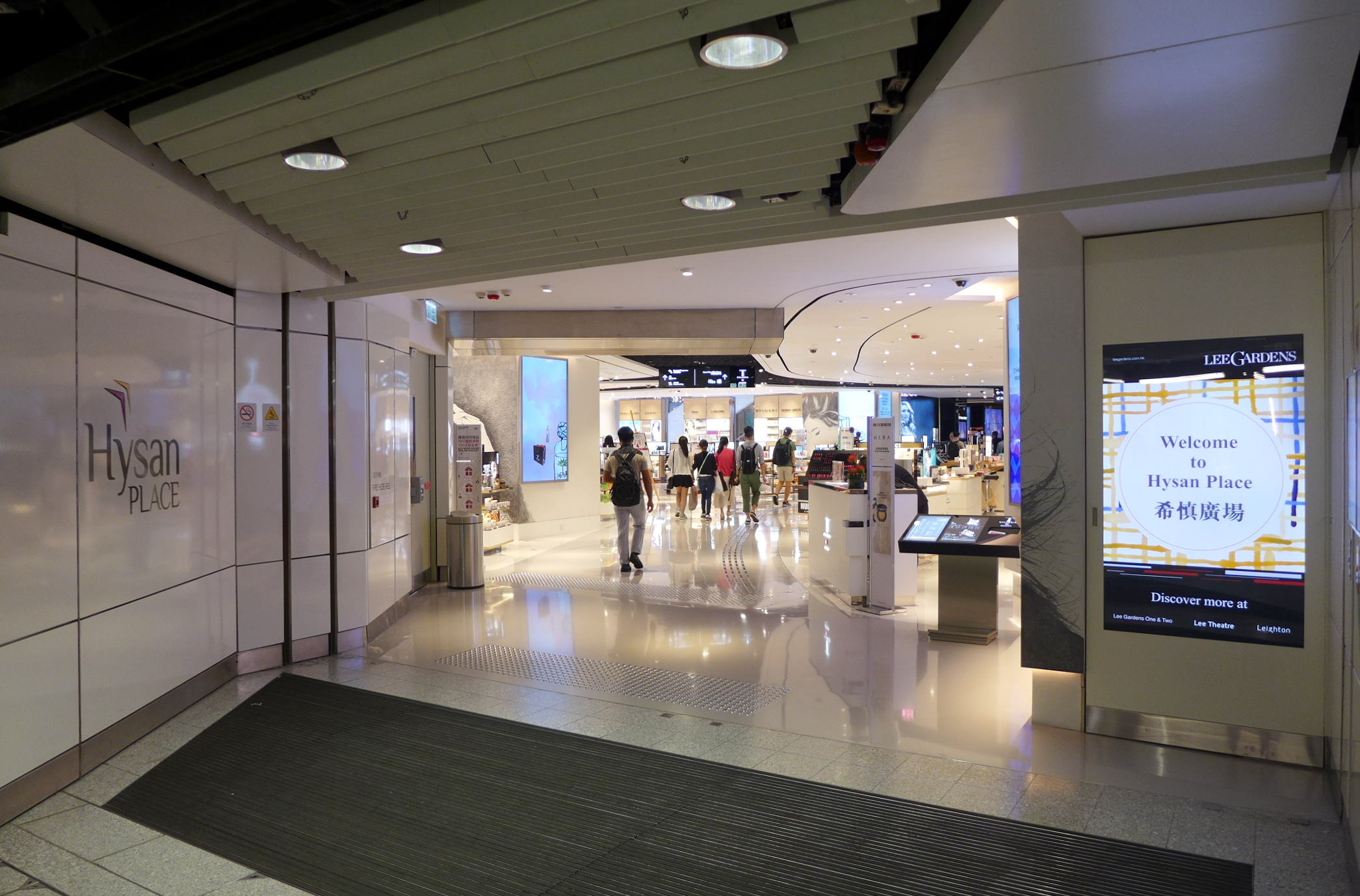 Hysan Place MTR Enterance